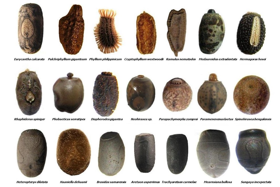 21 Eggs of diffrent Phasmidspecies (not in correct normsize to eachother)